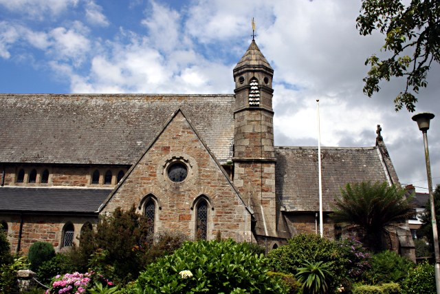 St Peter's Church, Newlyn In the cramped confines of Newlyn's narrow streets it is tricky getting a view of the whole church. This shot shows the southern aspect of the eastern half of the church. The parish of Newlyn was formed in 1848 as a response to the growth of this fishing village, the church however was not built for some years and was opened in 1866.